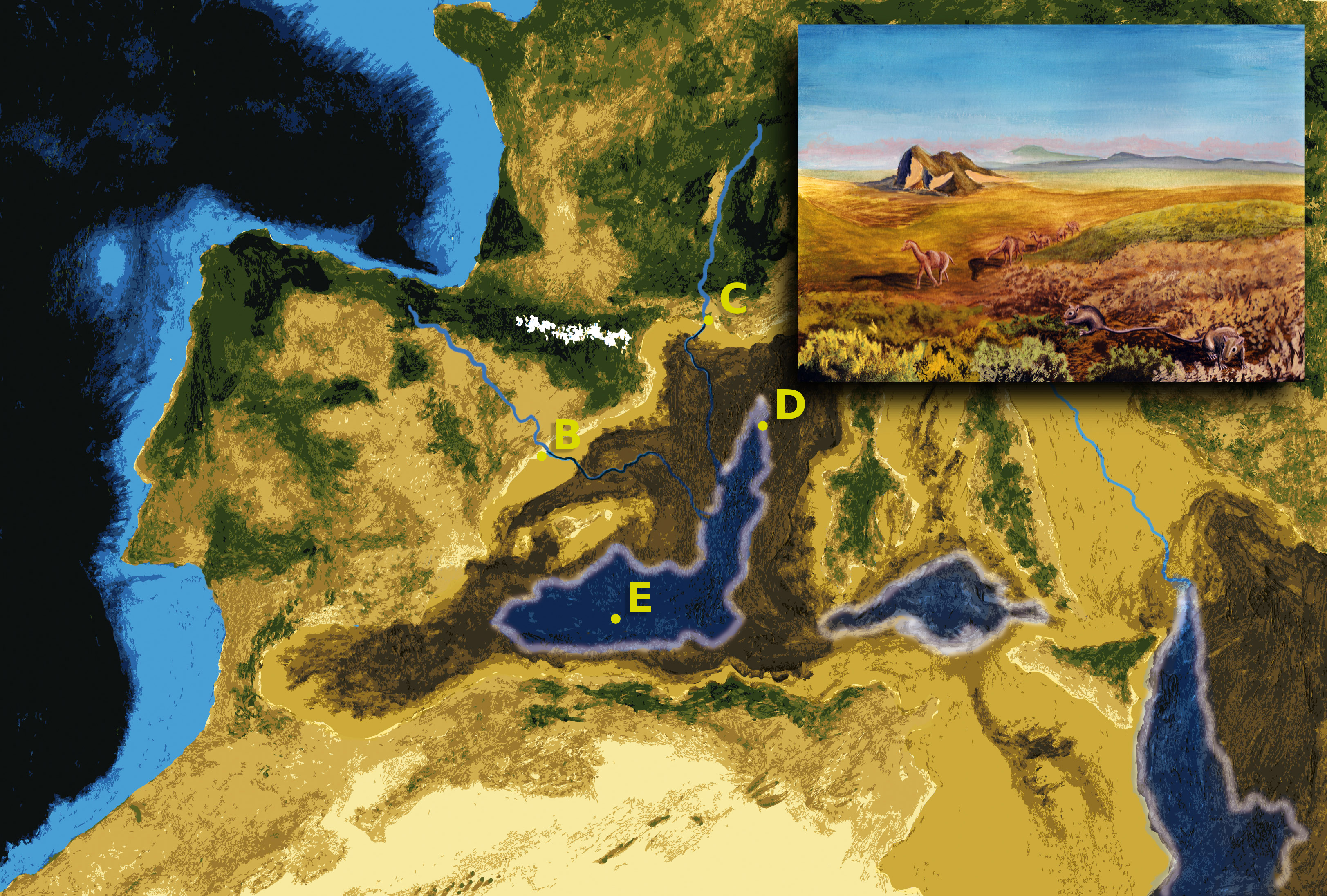 Closing the last channel connecting the Mediterranean and the Atlantic, leading to the first drying during the Messinian salinity crisis 5.96 million years ago. Rivers - (B) and (C) - which previoust drained to the Mediterranean excavated erosion gorges in the continental margins; (D) evaporation of the Mediterranean led to saturation of the salt in its waters and precipitation of salt layers over a kilometer thick; (E) in the deeper parts of the sea were lakes where water collected from the Mediterranean basin evaporated. The inset box recreates the mammalian, like camélidos and gerbils, transit across the Strait. Artistic interpretation by Pau Bahí under the scientific supervision of Daniel Garcia Castellanos, geophysicist at the Institute of Earth Sciences Jaume Almera (CSIC)